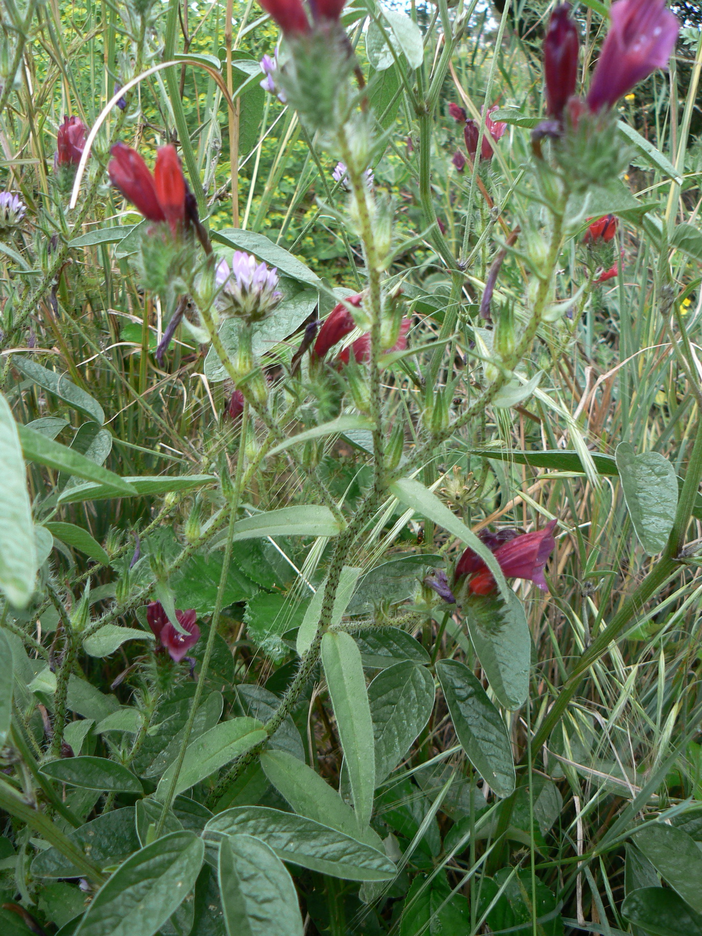 Echium creticum, Massif des Maures (France). Habitus.